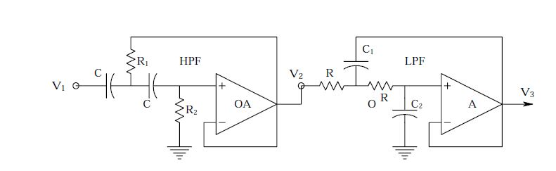 Sallen Key filter